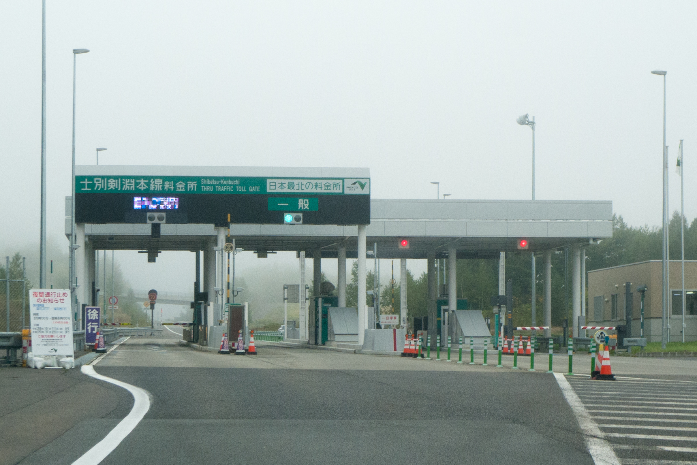 Shibetsu-Kenbuchi Toll Gate on the Hokkaido Expressway in Kenbuchi Town, Hokkaido, Japan